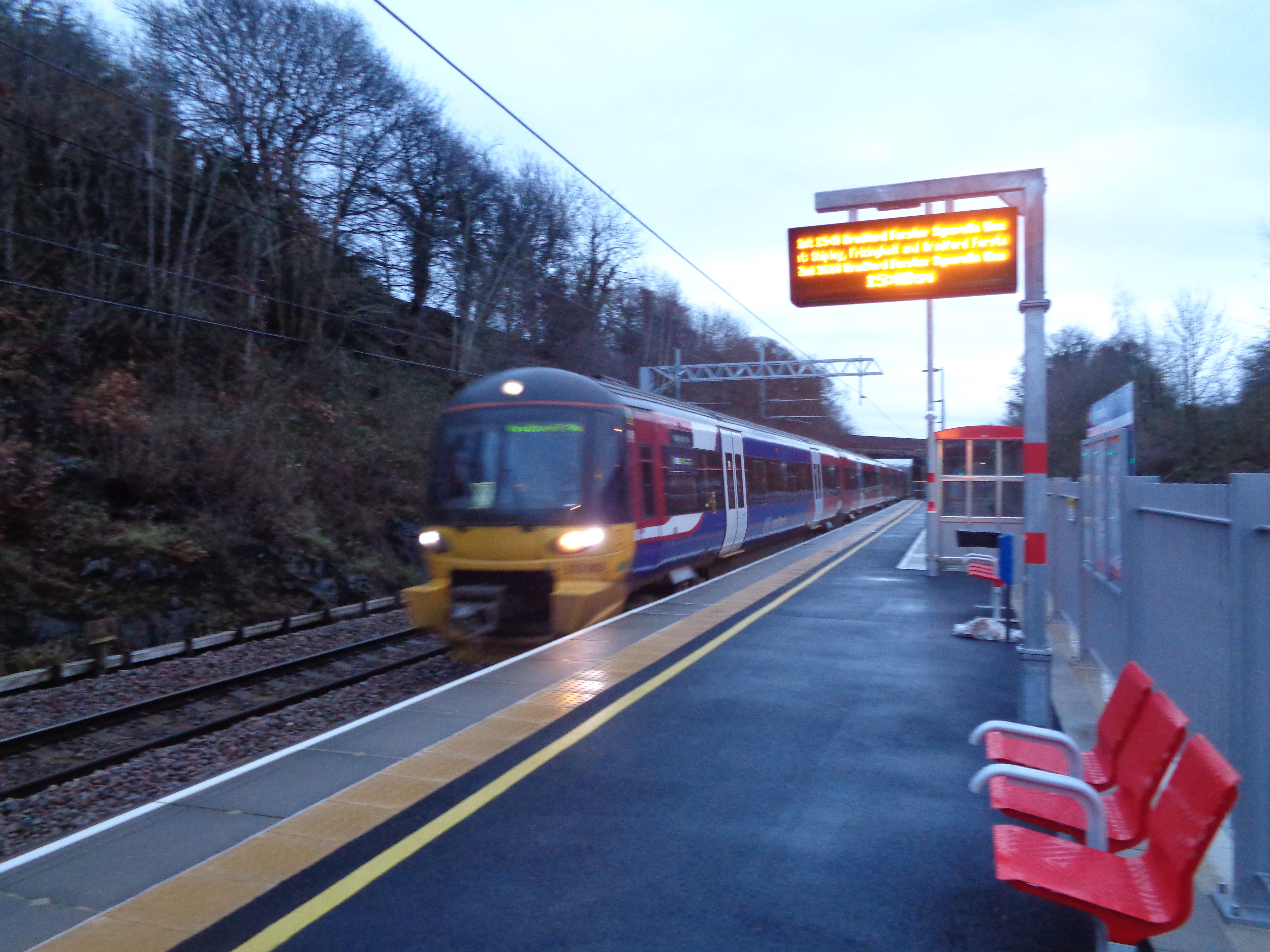 Bradford bound train on the Bradford bound platform, Apperley Bridge railway station in Apperley Bridge, Bradford, West Yorkshire. The railway station opened on Sunday the 13th of December 2015. Taken on the afternoon of Tuesday the 22nd of December 2015 (nine days after opening).